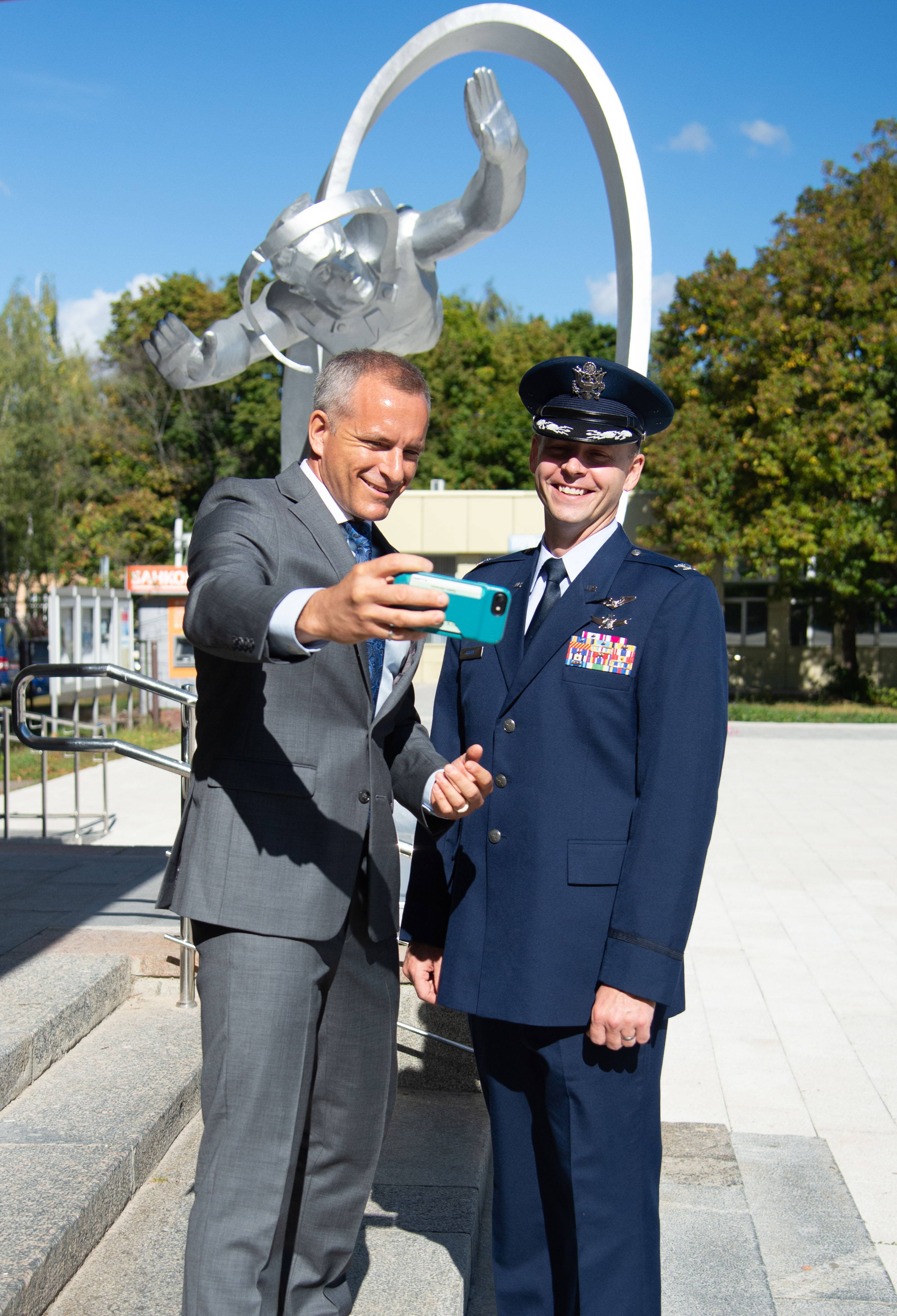 At the Kremlin in Moscow House of Cosmonauts in Star City, Expedition 57 backup crew member David Saint-Jacques of the Canadian Space Agency (left) takes a selfie with prime crew member Nick Hague of NASA (right) Sept. 17 during traditional prelaunch activities. Hague and Alexey Ovchinin of Roscosmos will launch Oct. 11 from the Baikonur Cosmodrome in Kazakhstan on the Soyuz MS-10 spacecraft for a six-month mission on the International Space Station.